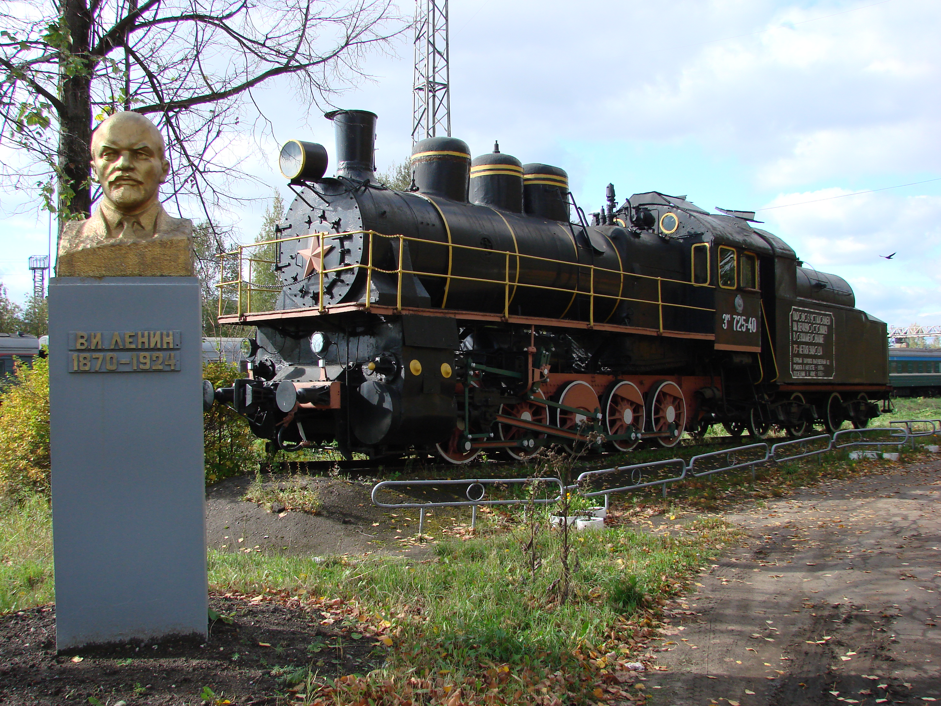 Russia, Vologda, Type E steam locomotive